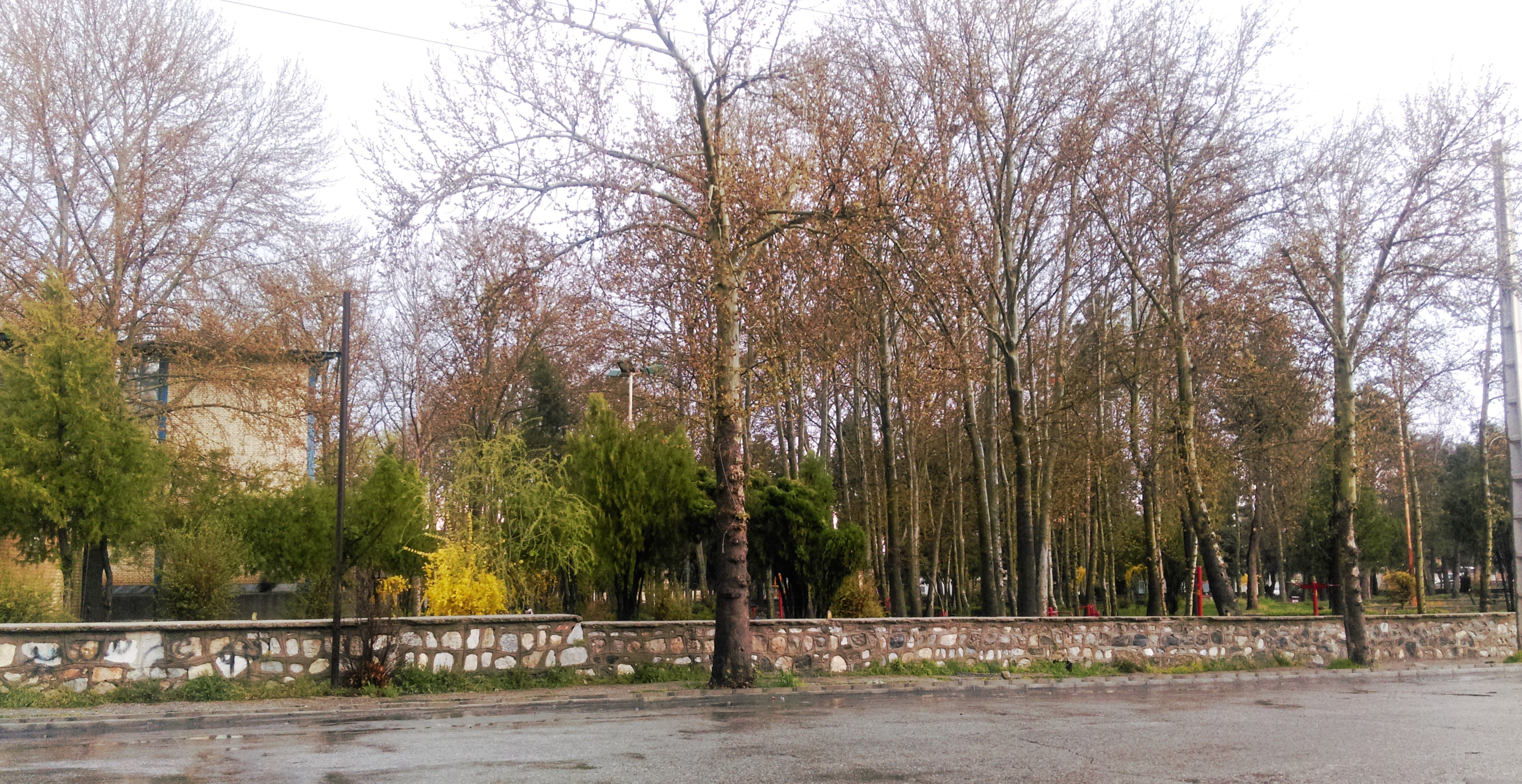 view form Borujerd